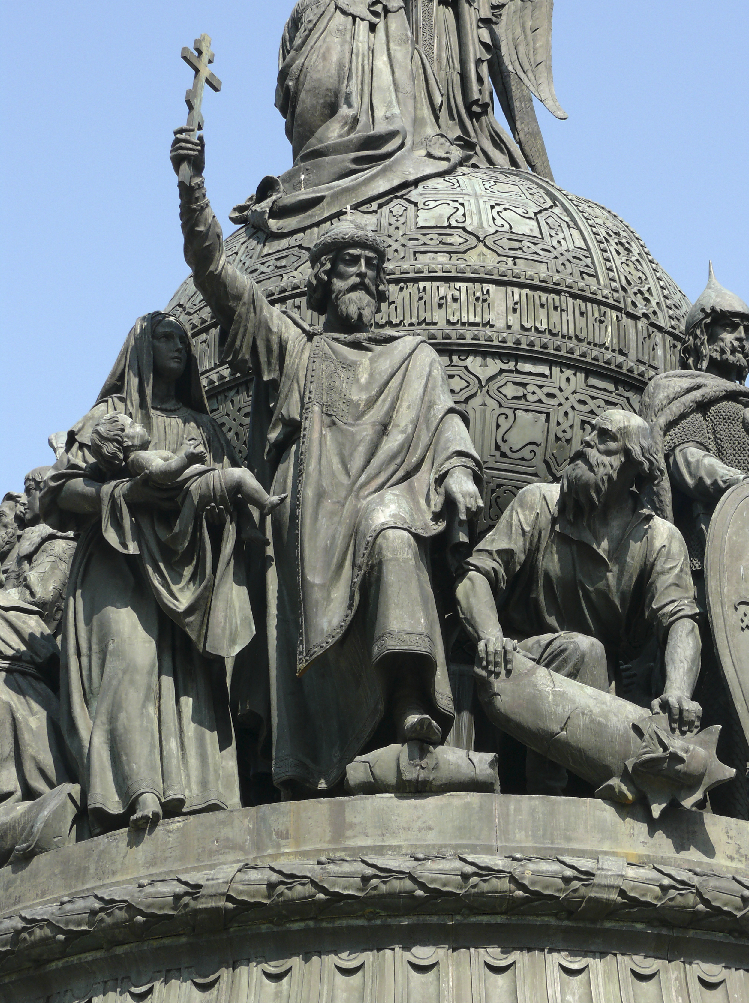 The group "Baptism of Russia" on the Monument "Millennium of Russia" in Veliky Novgorod, Russia